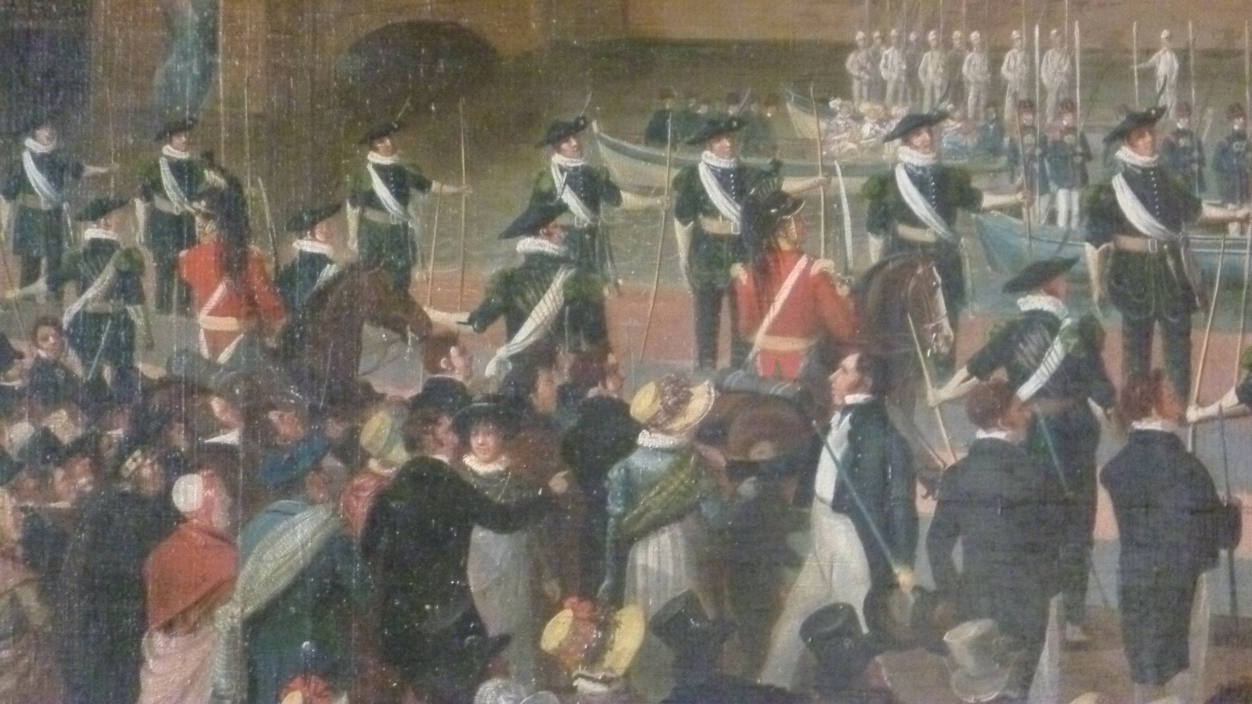 Members of the Royal Company of Archers form the Sovereign's Body Guard In Scotland. Detail from a painting by Alexander Carse of King George IV's landing at Leith in 1822.